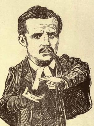 J Rose Innes. Member of Parliament for Victoria East. Cape Colony.